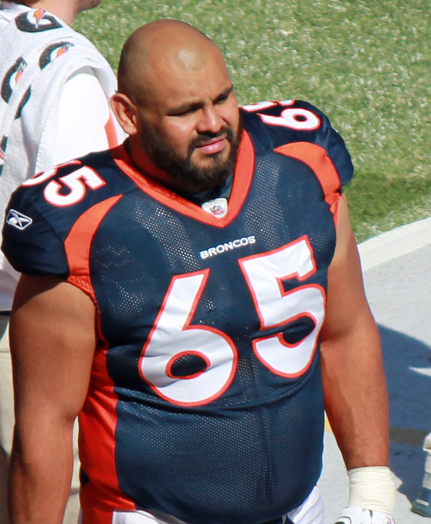 Manny Ramírez, a player on the National Football League.